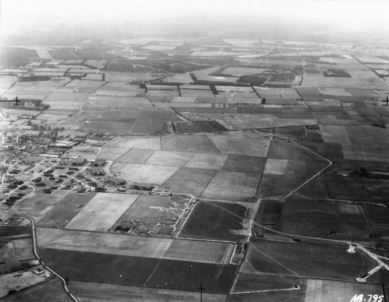 IWM caption : Oblique aerial view of RAF Feltwell, Norfolk, seen from the west, looking to the Breckland beyond. Vickers Wellingtons of Nos, 57 and 75 (New Zealand) Squadrons RAF can be seen parked in front of the hangars and on the airfield perimeter, as well as on pan-shaped hard-standings in the adjoining fields.